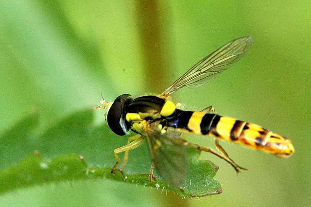 Picture taken in Commanster, Belgian High Ardennes . Species: male Sphaerophoria scripta